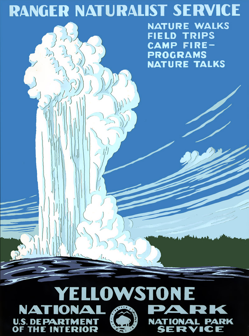 Poster for Yellowstone National Park, Wyoming/Montana, USA